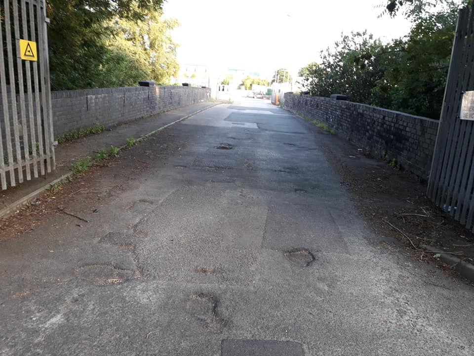 Looking across the private road bridge where the line near Fenton Manor on the Biddulph Valley line ran but heavily overgrown.